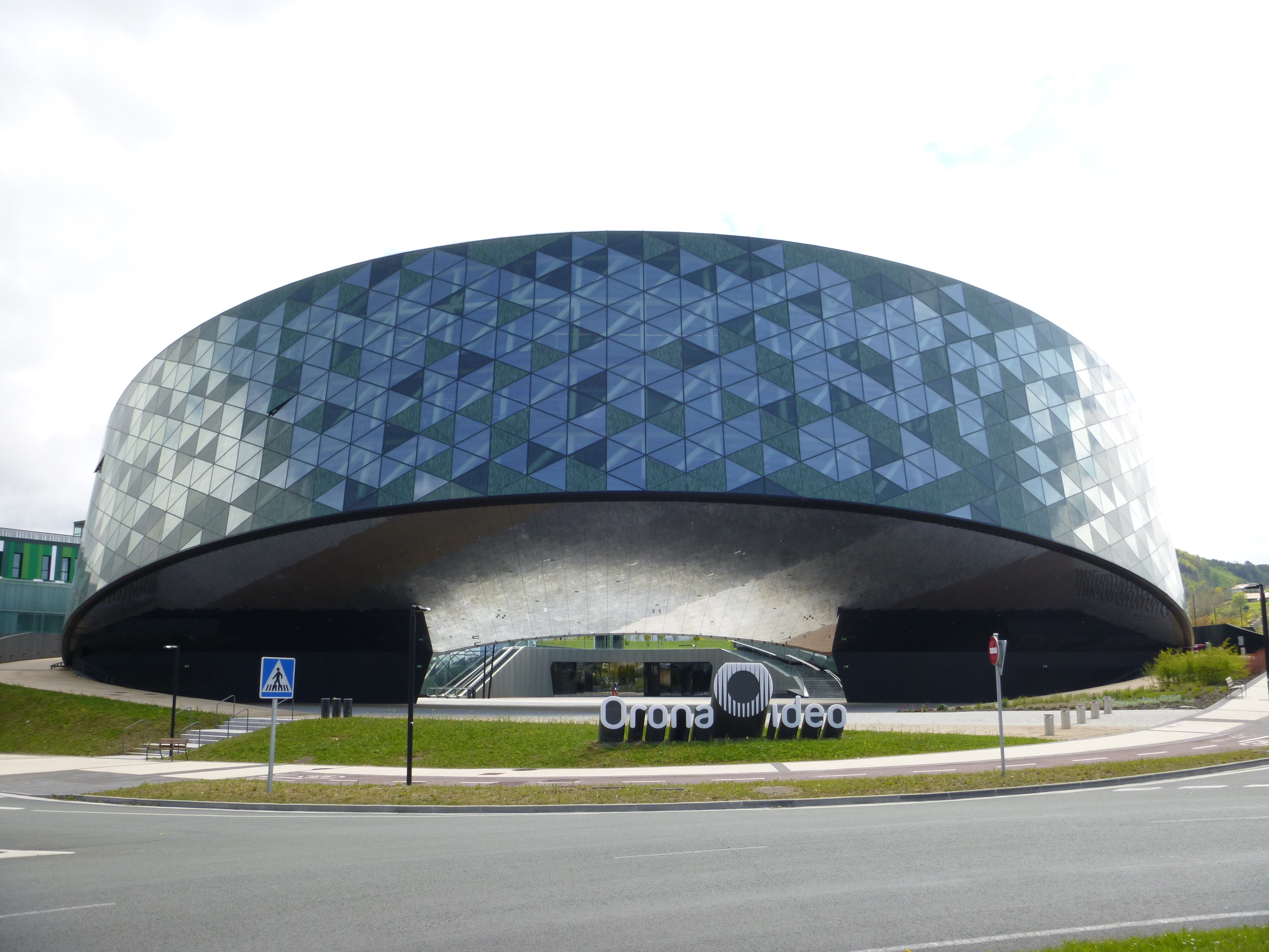 Orona ideo